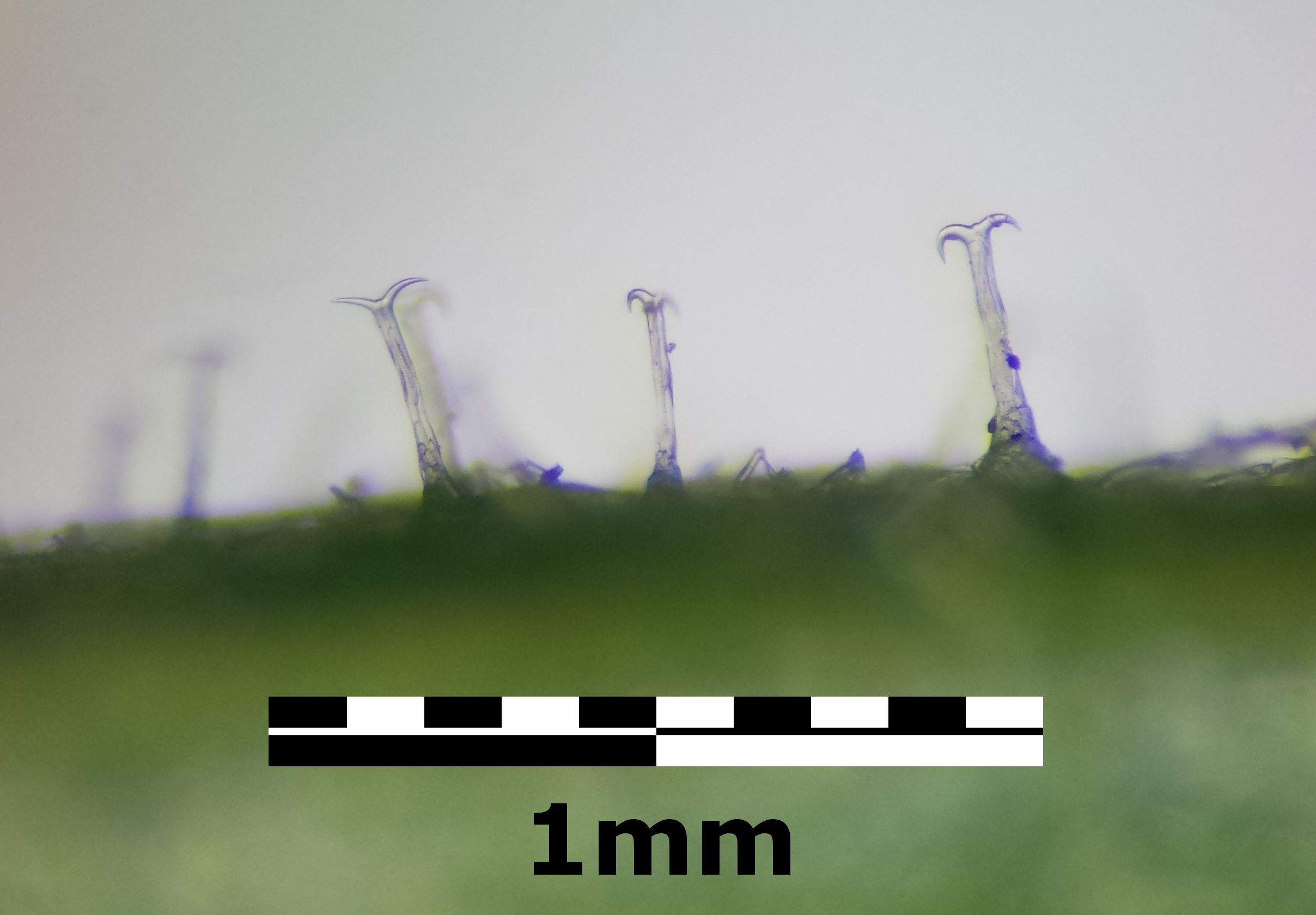 Anchor like hairs on a pedicel Taxon: Picris hieracioides subsp. hieracioides (sensu Fischer et al. EfÖLS 2008 ISBN 978-3-85474-187-9; det. M. A. Fischer 2014-10-25) Location: 3rd district, Vienna, Austria - ca. 180 m a.s.l. Habitat: ruderal area